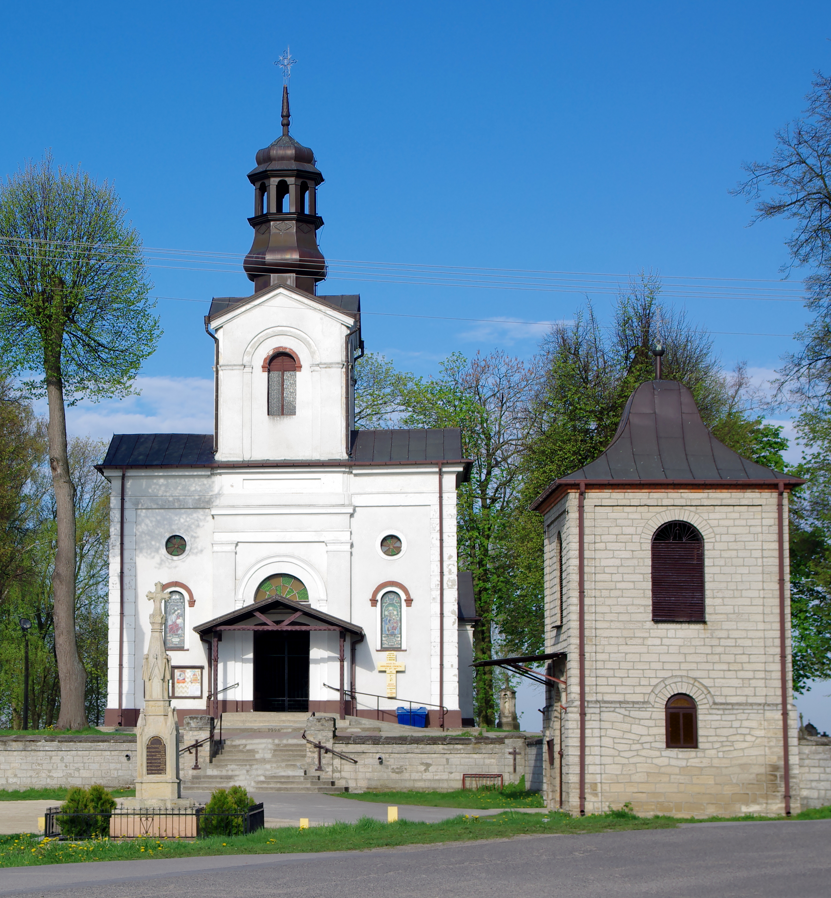 Saint Nicholas church in Kiełczyna